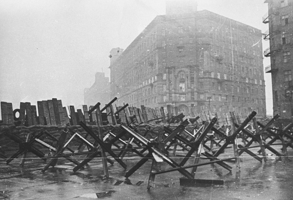 “Barricades on city streets”. Barricades on city streets.Great Patriotic War of 1941-1945.